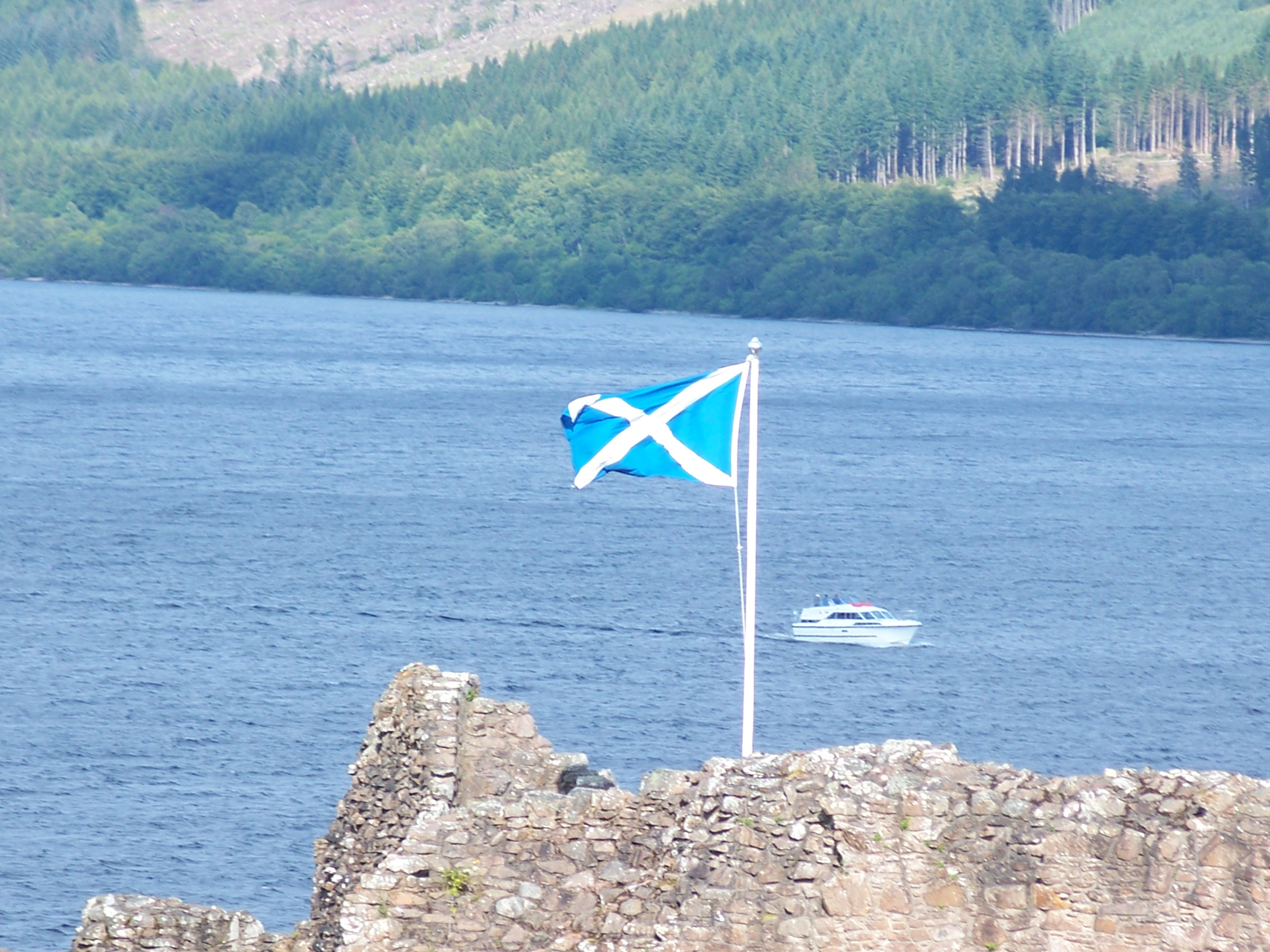 Bandera_d'Escòcia_al_llac_Ness